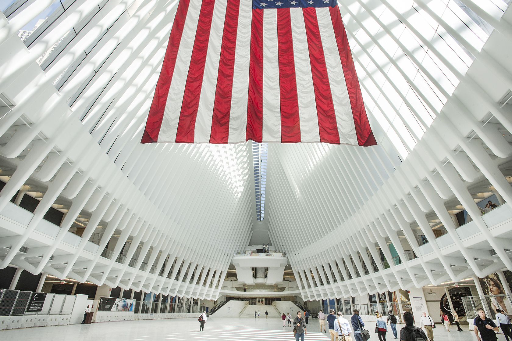 The Dey Street Concourse, a 350 foot-long, 27 foot-wide pedestrian tunnel, allows customers to walk underneath Dey Street between Broadway and Church Street without exiting the station complexes. The connection to the Dey Street Concourse and the PATH World Trade Center station is accessible at the bottom level of Fulton Center. Photo: Patrick Cashin / Metropolitan Transportation Authority